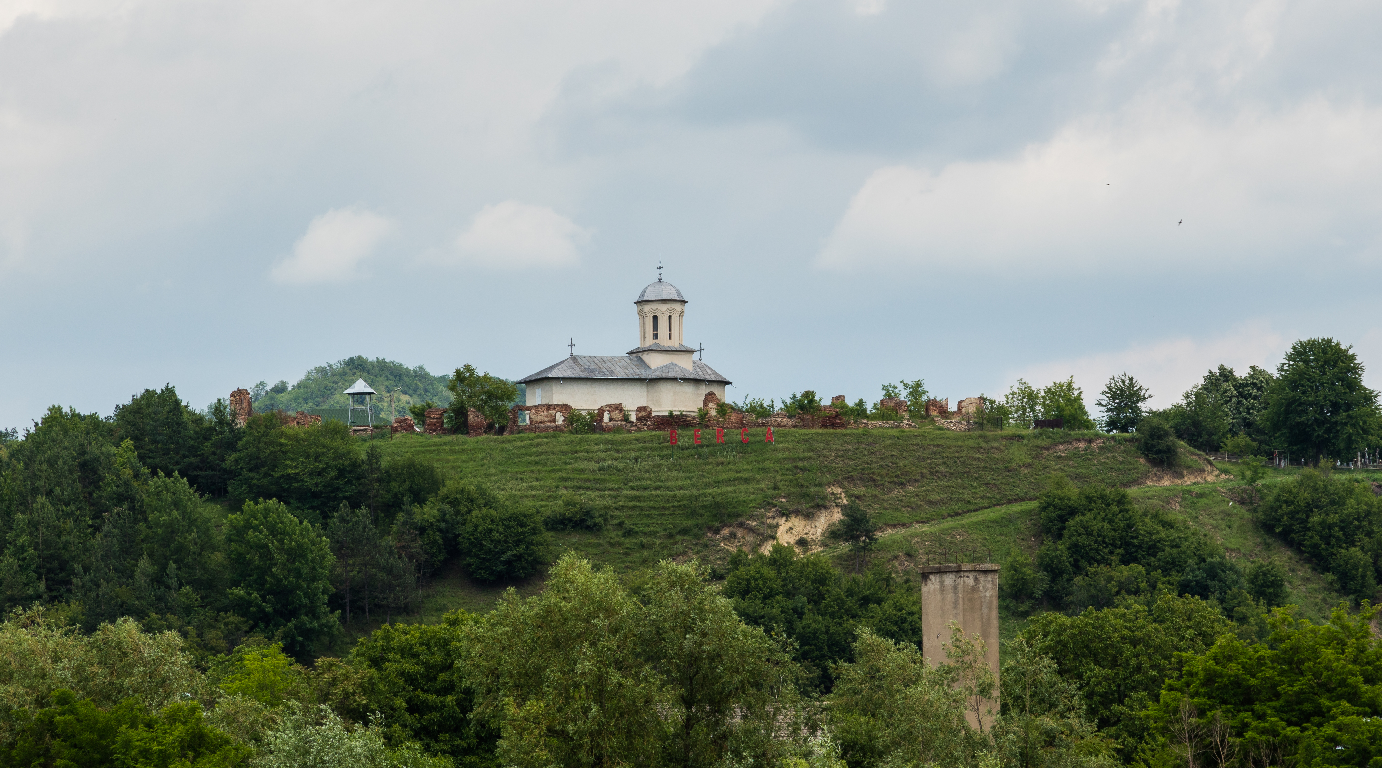 Monastery church, Berca, Romania